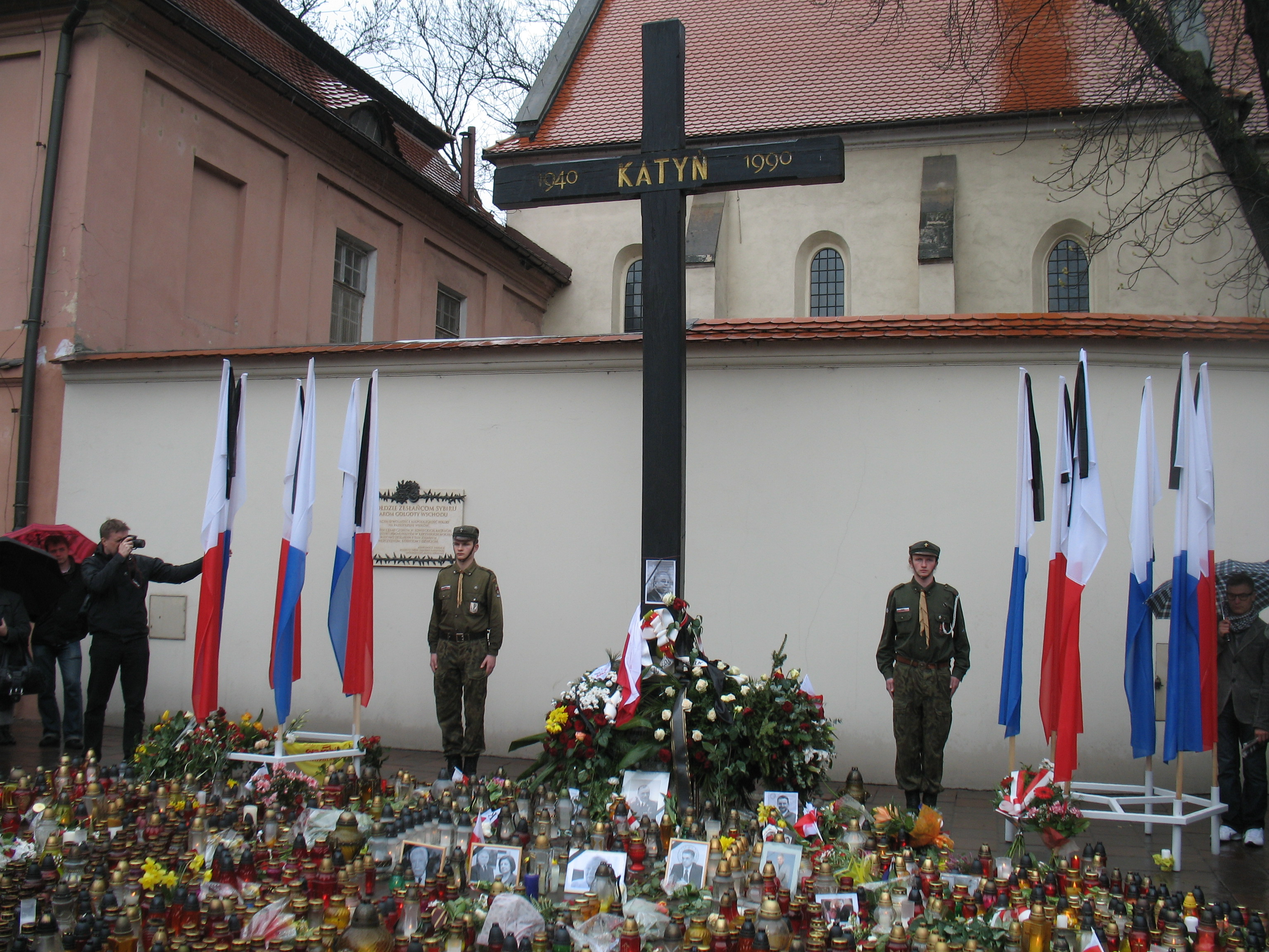 Cracow after Polish Air Force One crash. In front of the Katyń Memorial Cross at St. Giles' Church